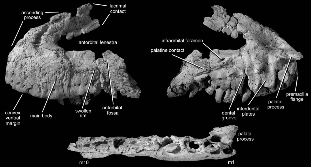 Left maxilla of rauisuchian Polonosuchus silesiacus (Sulej, 2005) from Late Carnian, Upper Triassic of Krasiejów Claypit, Poland, ZPAL AbIII/563, part of holotype. Photographs in lateral (A), medial (B), and ventral (C) views. Designation “m” refers to maxillary tooth position.